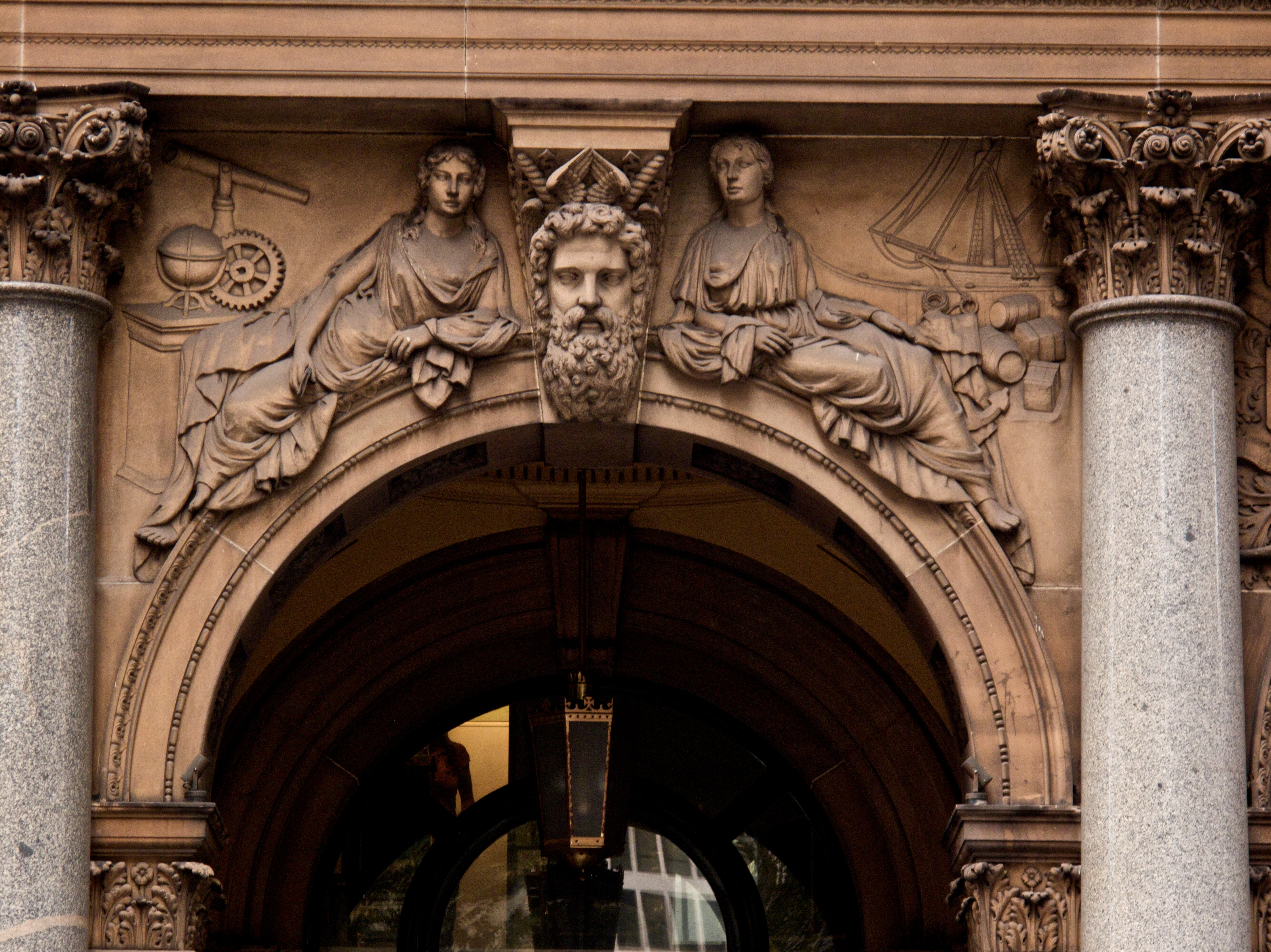 Faces on the facade of the General Post Office in Sydney, Australia.